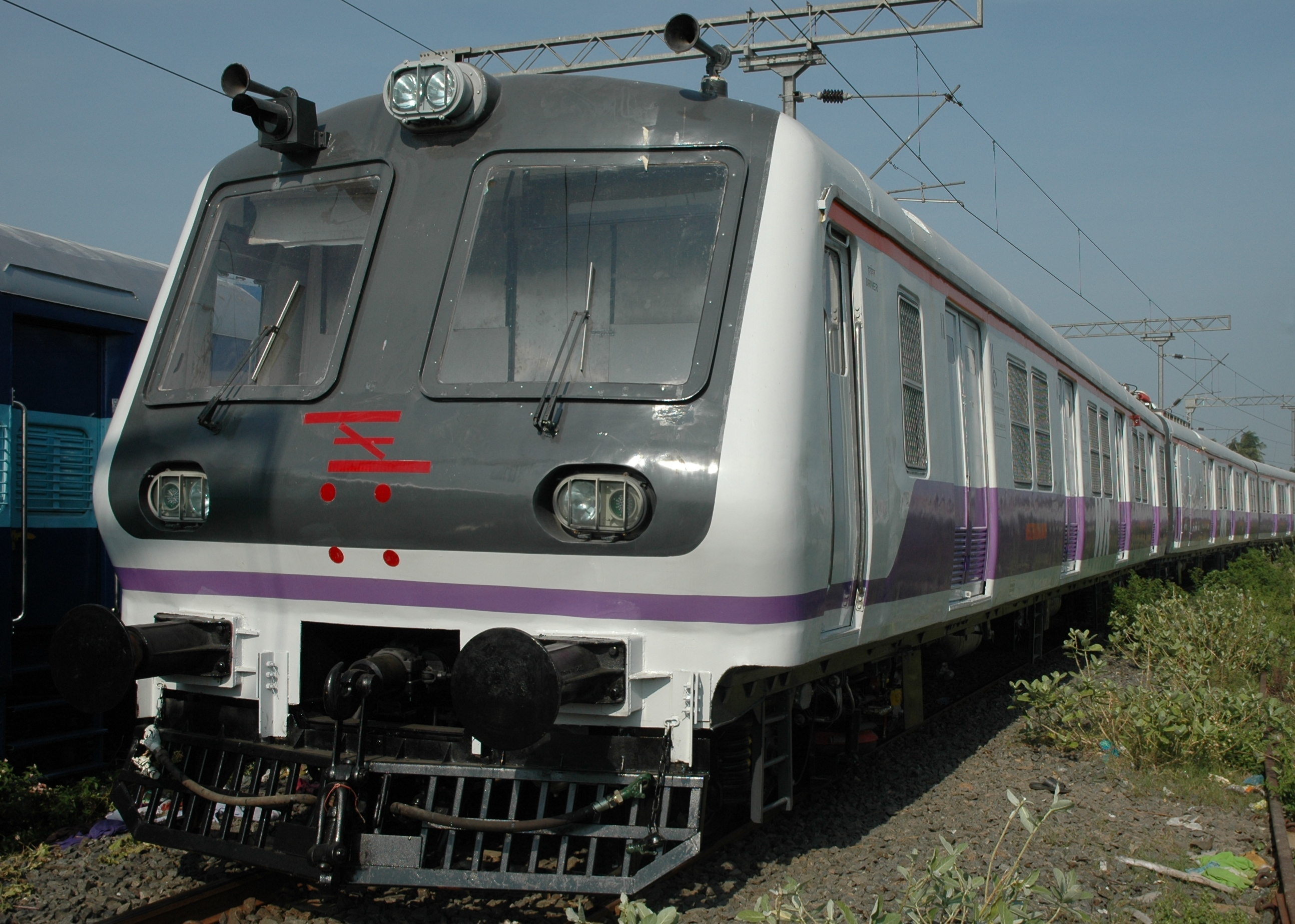 Author: Integral Coach Factory Uploaded to Wiki by user:Nikkul Fair Use Rationale: "Dear Mr. Nikhil, Please find enclosed photos of the Mumbai Trains that we manufactured for the Mumbai Rail Vikas Corporation. We, as the creator of the images, agree to license it under the Creative Commons Attribution Sharealike License". Regards, G. Subramanian, Public Relations Officer/ICF."